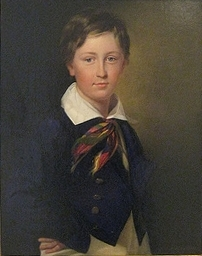 Otakar was the nephew of Johann Rudolf Count Czernin (1757 - 1845), Tkadlík's patron.